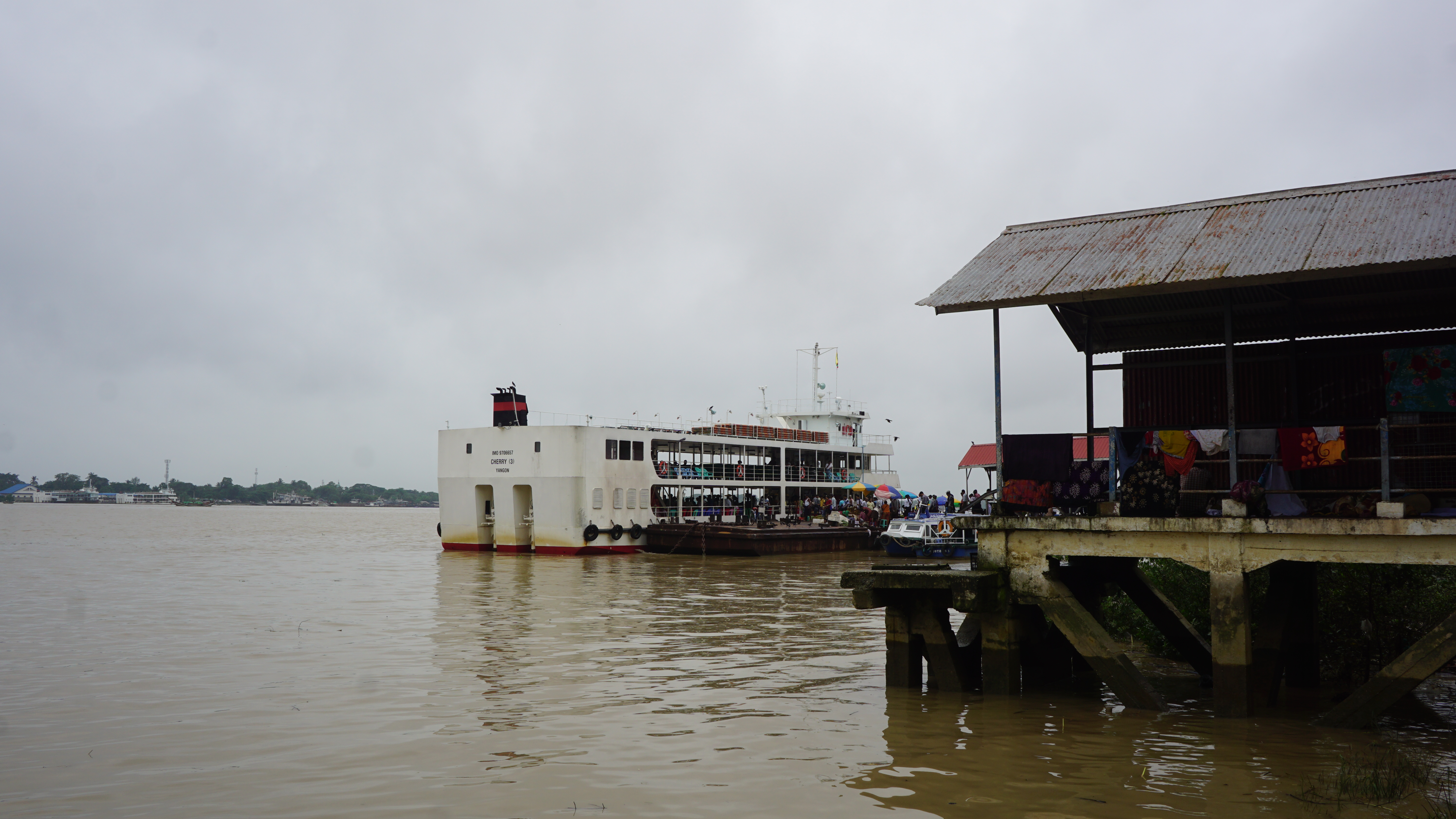 A ferry in Yangon in 2016